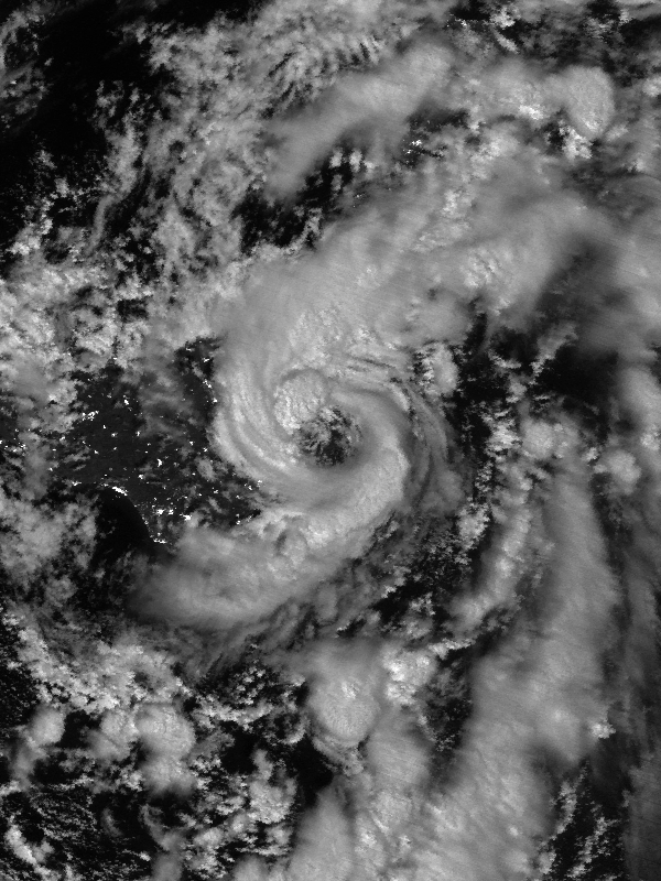 The Visible Infrared Imaging Radiometer Suite (VIIRS) on the Suomi NPP satellite acquired this image of a Mediterranean tropical-like cyclone (also known as “Qendresa”) near Sicily around 02:43 CET (01:43 UTC) on 8 November 2014.